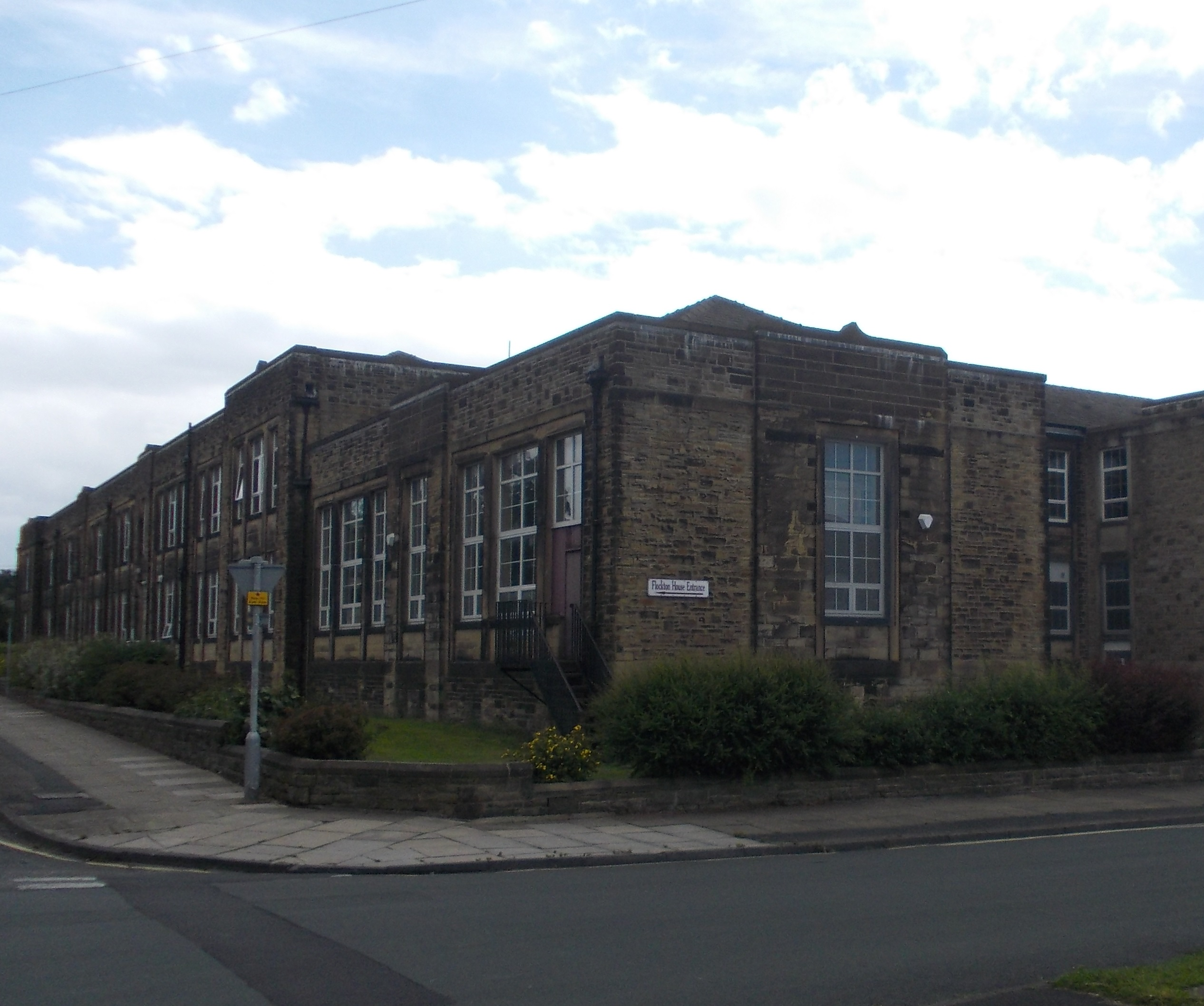 View of Flockton House